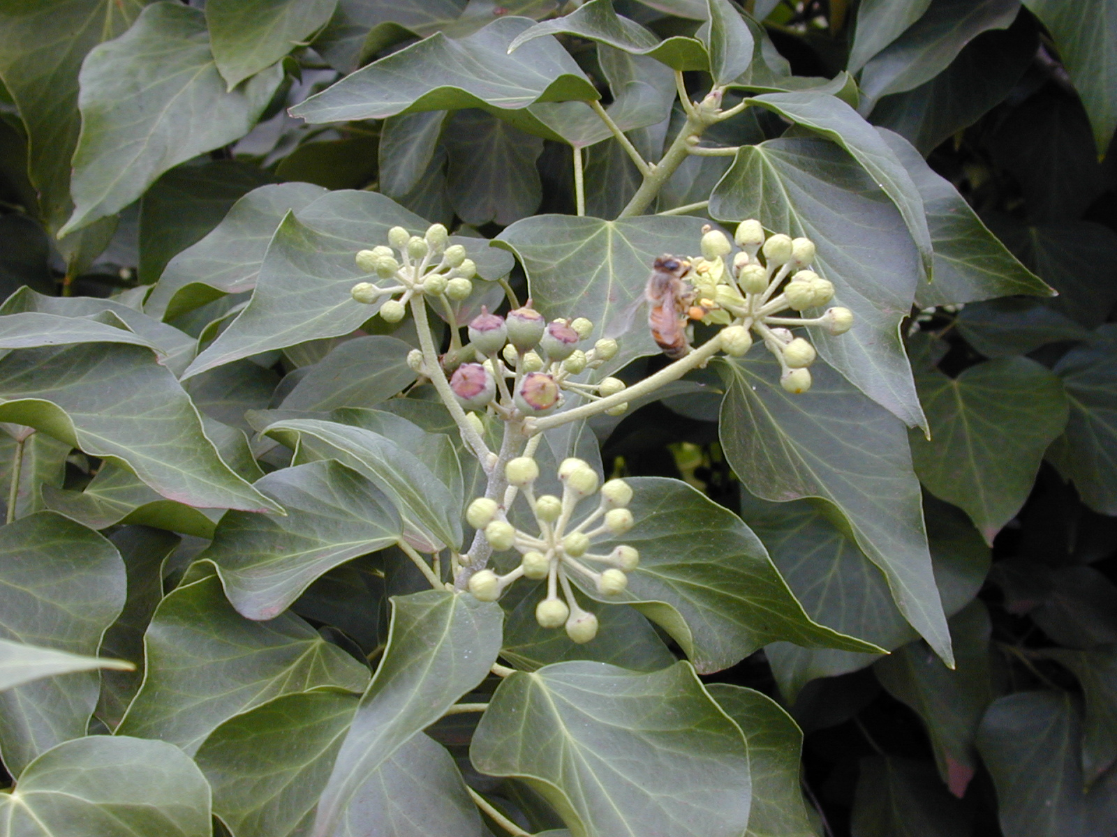 Hedera helix (bee visiting flowers). Location: Maui, Kula